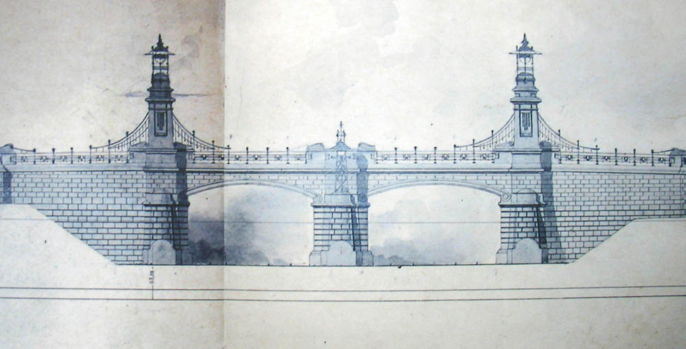 Ivan Strukov, 1904. Draft of Tverskoy overpass in Moscow.